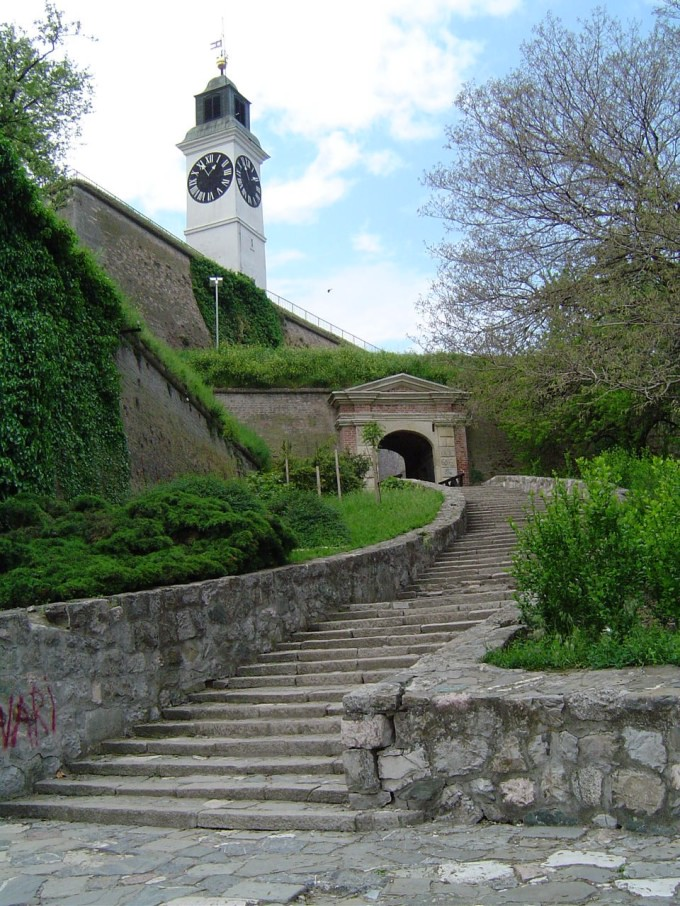 Petrovaradin Fortress in the spring